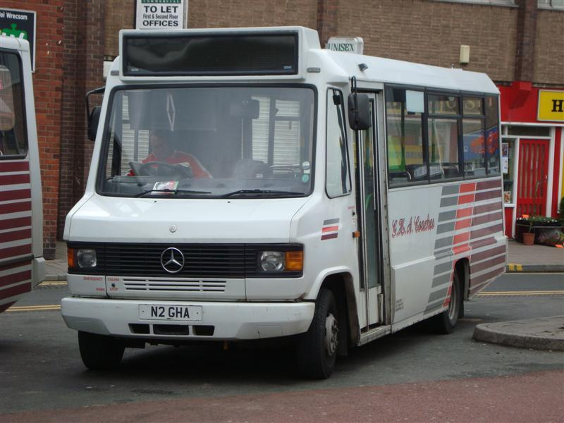 GHA Coaches N2 GHA, a Mercedes-Benz 709D/Marshall, in Wrexham bus station.